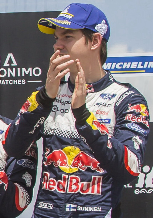 Teemu Suninen on the podium of the 2018 Rally de Portugal (3rd)